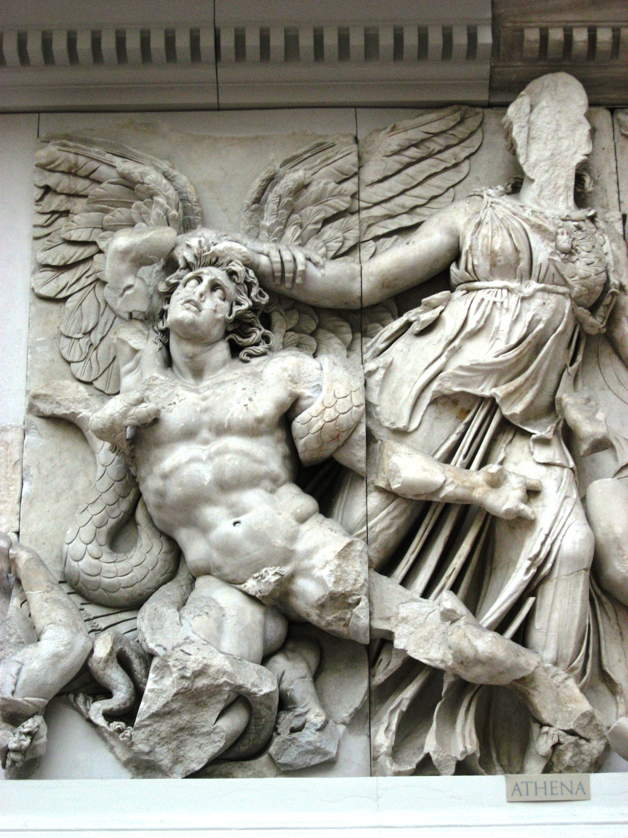 part of the Gigantomachy frieze of the Pergamon Altar